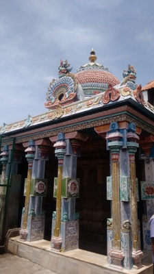 Tirunallardarbaranesvarartemple திருநள்ளாறுதர்பாரண்யேஸ்வரர்கோயில்